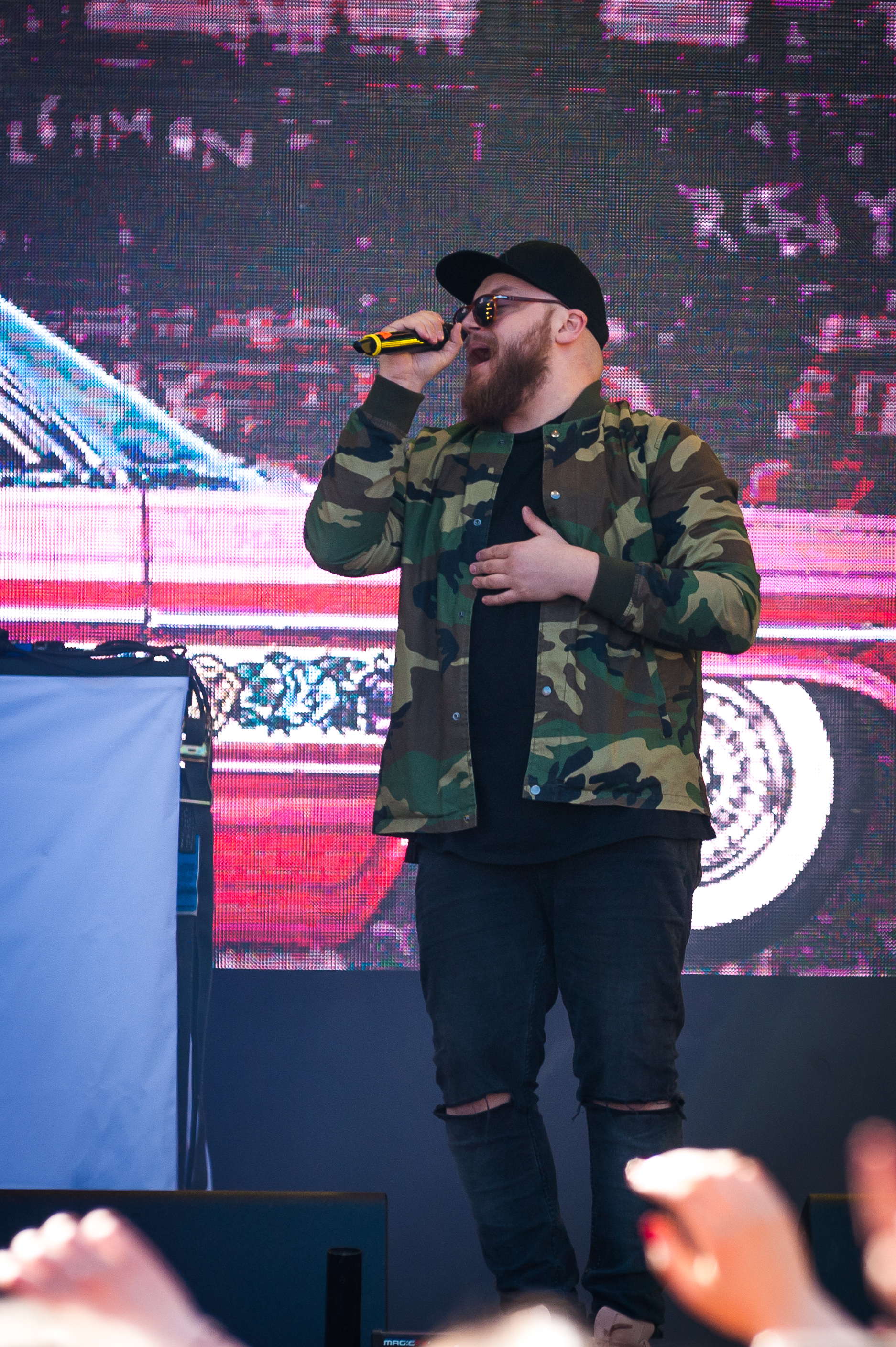 Finnish singer Kasmir performing at the 2017 YleXPop festival in Lahti, Finland.